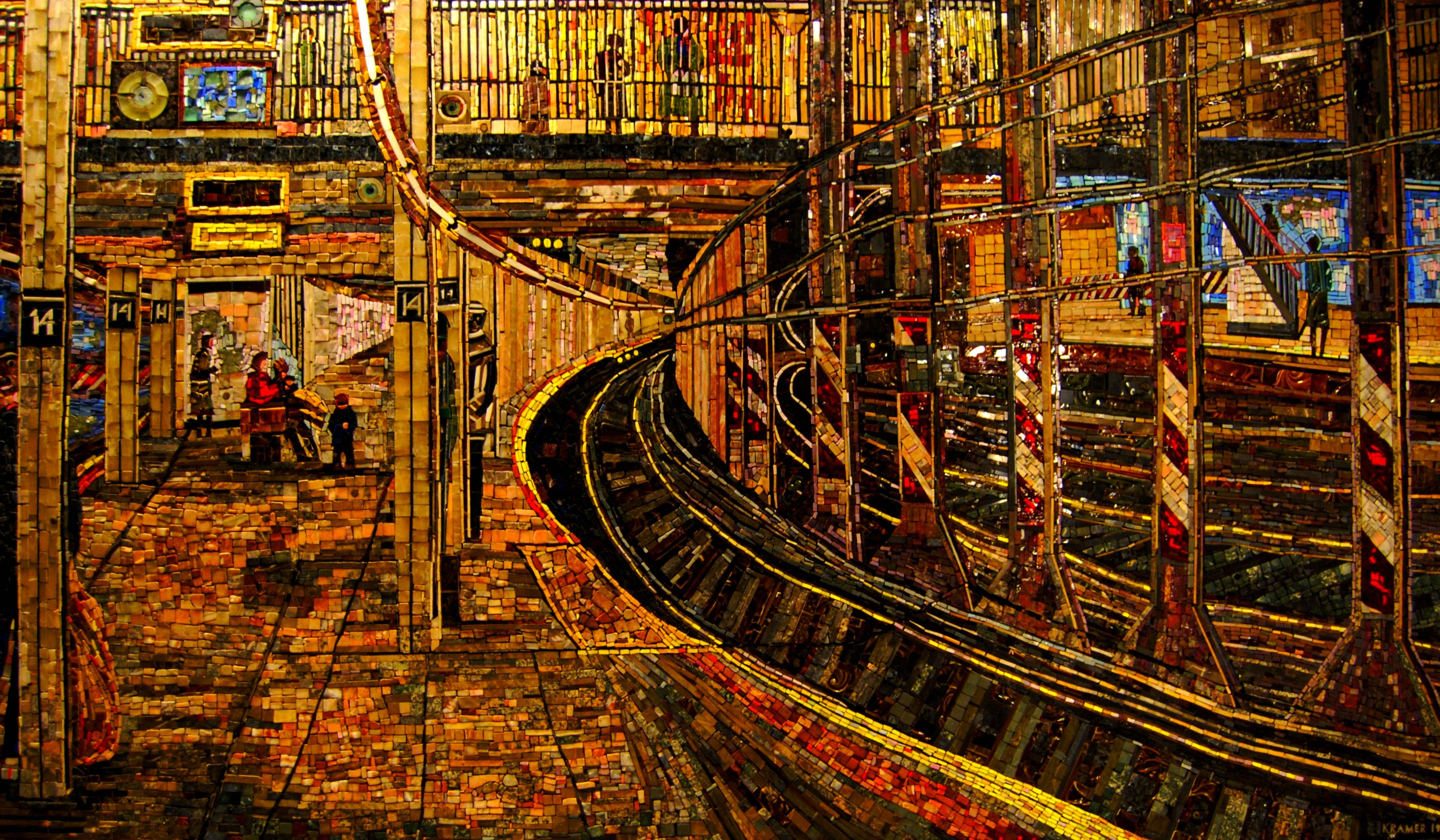 At Spring Street Station on the C